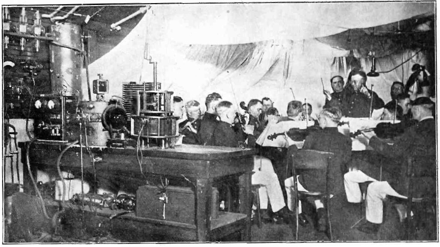 Photograph's caption: "Two Millions Heard this Band Play: Have you heard the United States Marine Band play for radio fans? If not, listen in any Wednesday night. This famous musical organization plays by permission of Edwin Denby, Secretary of the United States Navy. Anacostia Naval Station does the modulating on 412 meters, between the hours of 8:30 and 9:30 p. m. The concerts are directed by Captain William M. Santelman, and continue for over an hour. The illustration shows the band section of the interior of the United States Broadcasting Station at Anacostia, D. C." [Radio station NOF]